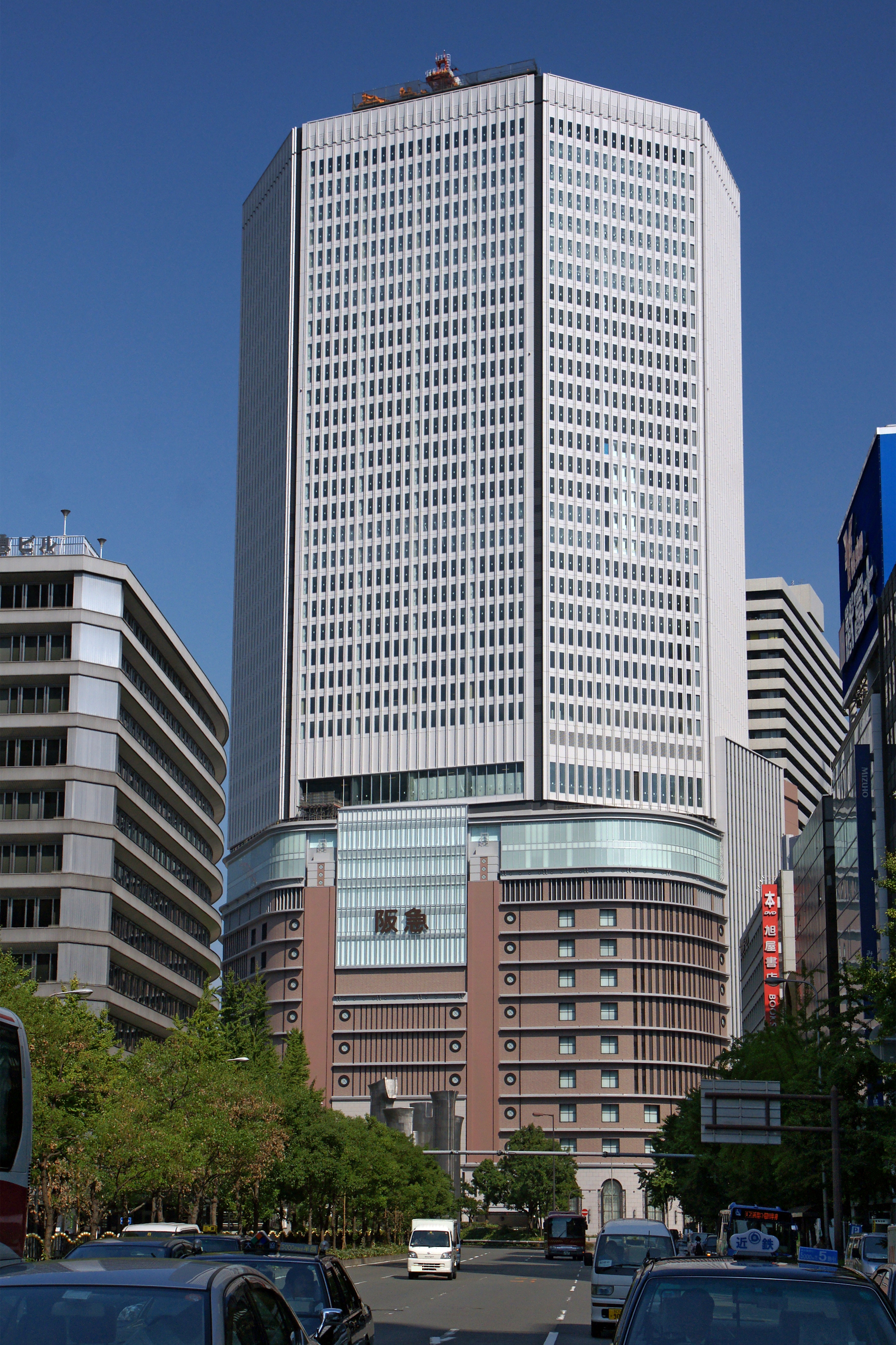 Umeda Hankyu Building Office Tower, Osaka, Osaka prefecture, Japan